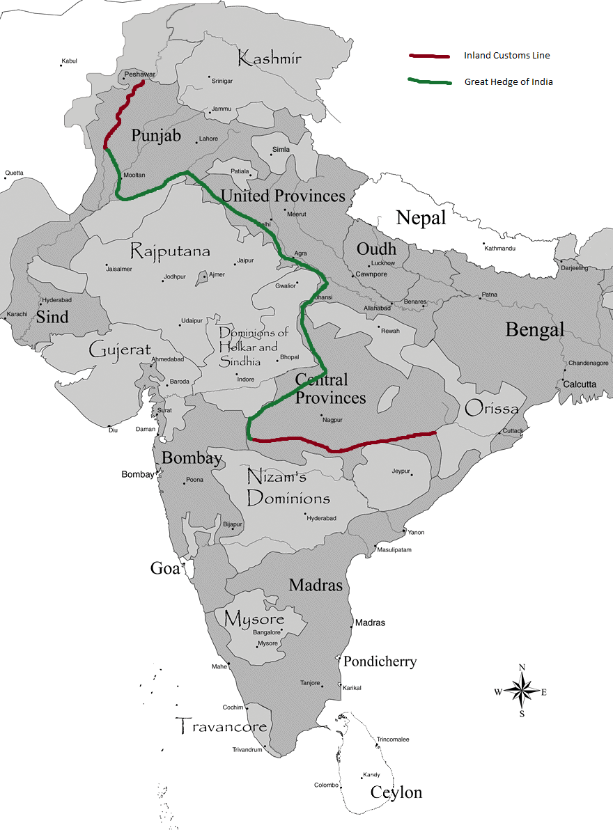 Map of the Inland Customs line and Great Hedge of India as it existed in the 1870's. by Richard Moxham used as reference for location of line and hedge.